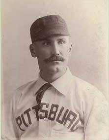 An 1894 baseball card of Jake Beckley